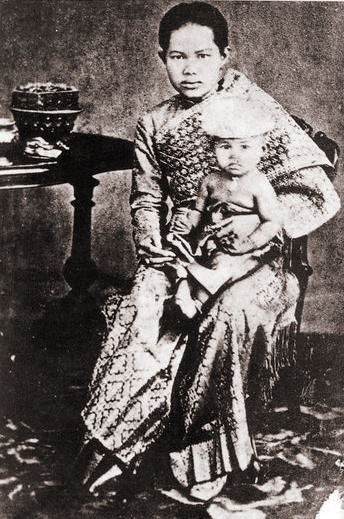 HRH Princess Kannabhorn Bejaratana, daughter of King Chulalongkorn (Rama V the Great) of Siam, with her mother, Queen Sunandha Kumariratana